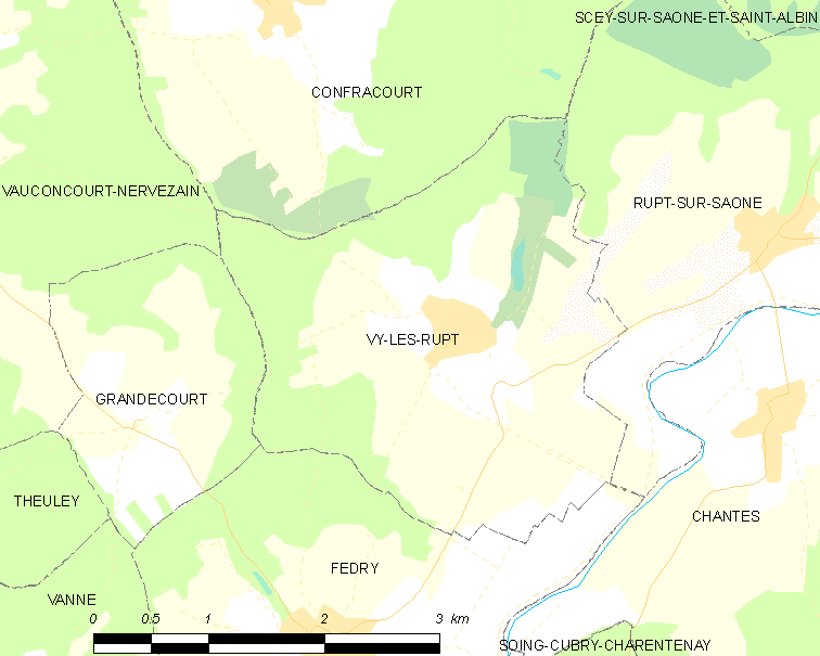 Map of French municipality